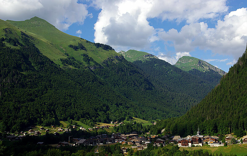 Montriond Village, in the heart of the Vallée d'Aulps, Haute-Savoie, France